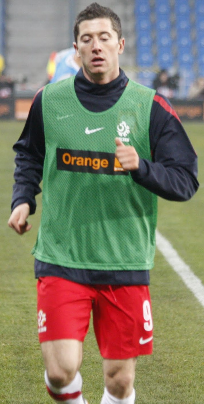 Robert Lewandowski's training.